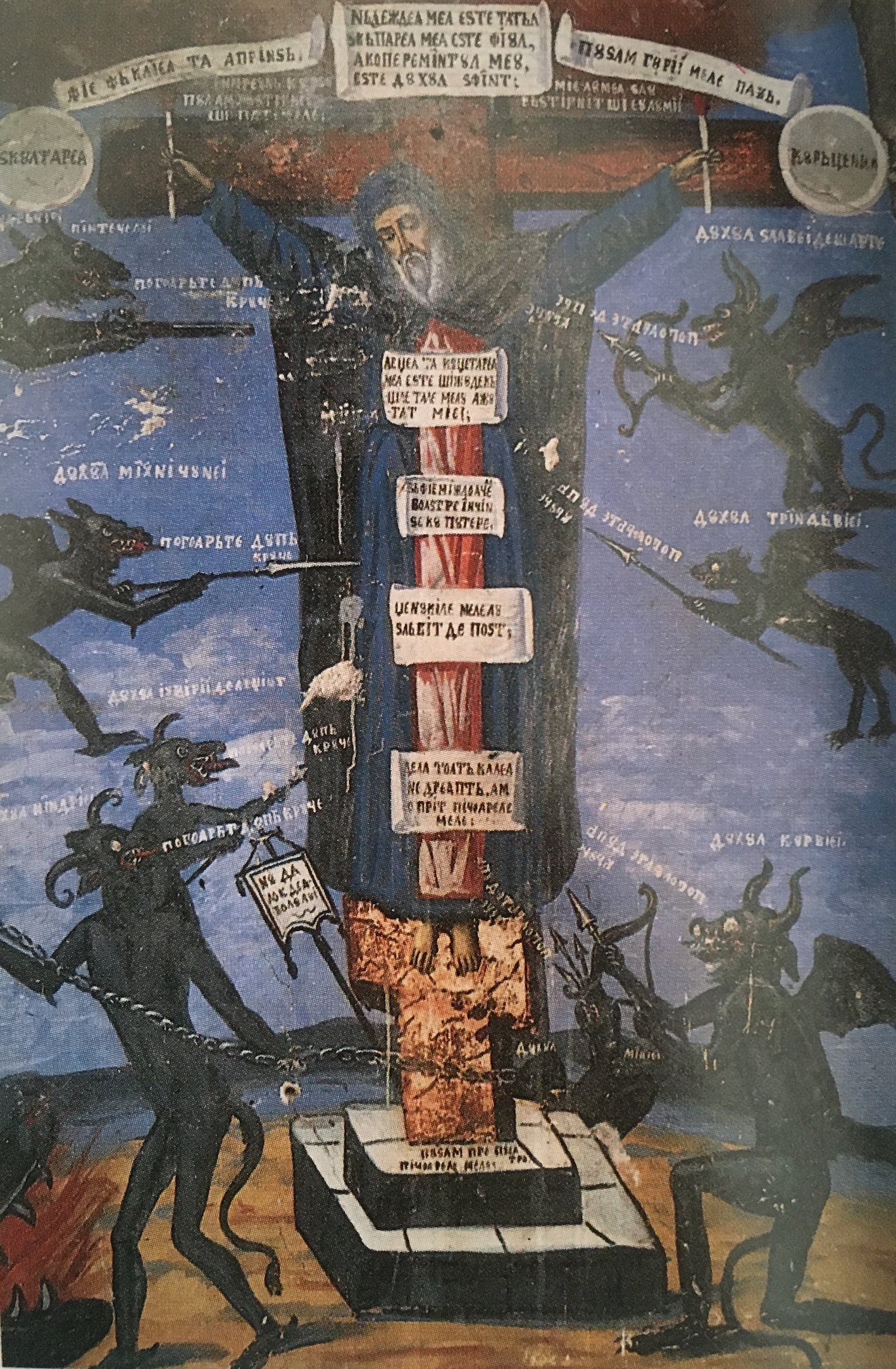 Athanasius the Athonite as The True Monk (a type of Orthodox iconography), fresco in the Monastery of Great Lavra, Mount Athos, Greece, 16th century. — Illustration in the book “拜占庭：燦爛的黃金時代” (lit. ‘Byzantium: Splendid Golden Age’, p. 120), “Voyage d’exploration” series (vol. 72). Taiwan (traditional Chinese) edition translated from the French Tout l’or de Byzance by Michel Kaplan, collection « Découvertes Gallimard / Histoire » (nº 104). 中文（台灣）: 聖阿塔納修斯，亞薩斯山教堂壁畫，16世紀：拉弗拉教堂 (église de Lavra) 這幅以全身呈現的人物是阿塔納修斯 (Athanase)。他原本是10世紀時君士坦丁堡聲名最卓著的教師，後來成為比希尼亞 (Bithynie) 的修士，跟隨在後來成為皇帝的尼基弗魯斯·福卡斯的長輩馬雷諾斯 (Michel Maléïnos) 身邊。阿塔納修斯和尼基弗魯斯·福卡斯建立了友誼，幫助他收復克里特島，其後赴亞薩斯山 (Mont Athos) 創建了拉弗拉修院。——「發現之旅」叢書第72冊《拜占庭：燦爛的黃金時代》第120頁插圖。Michel Kaplan/著，呂淑蓉/譯。臺北：時報文化，2003年8月20日出版。插圖簡短介紹位於此書第174頁；文本取自第120頁的插圖說明文，〈第七章 上帝和祂的使徒〉。